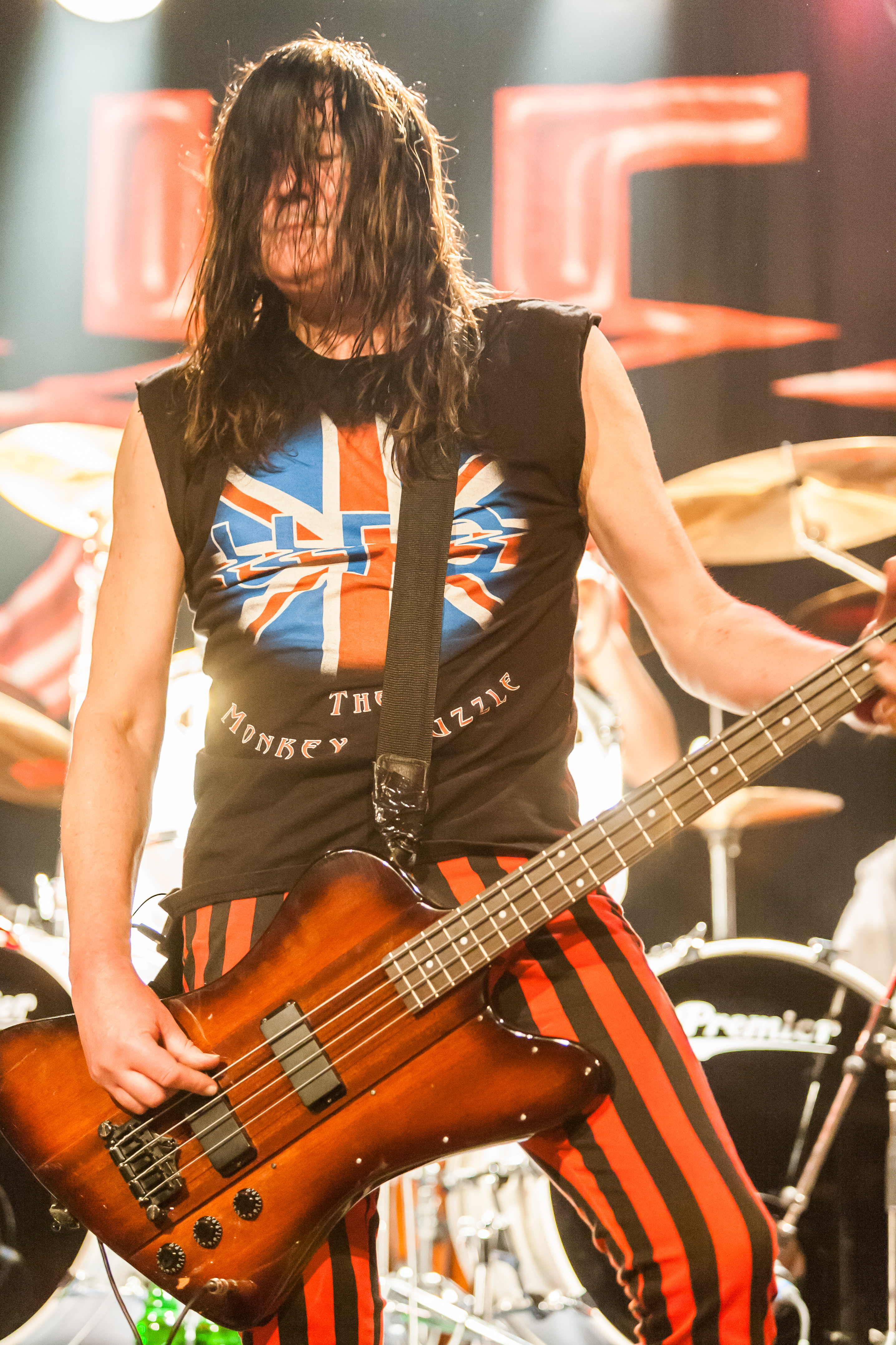 Pete Way, on stage at a concert of UFO at music club “Kantine” in Cologne